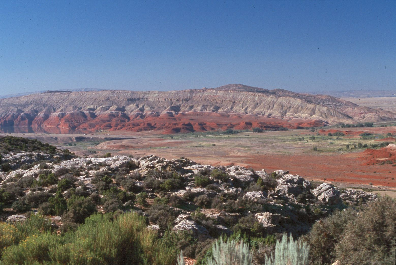 Great Basin Desert picture showing vegetation and mountains